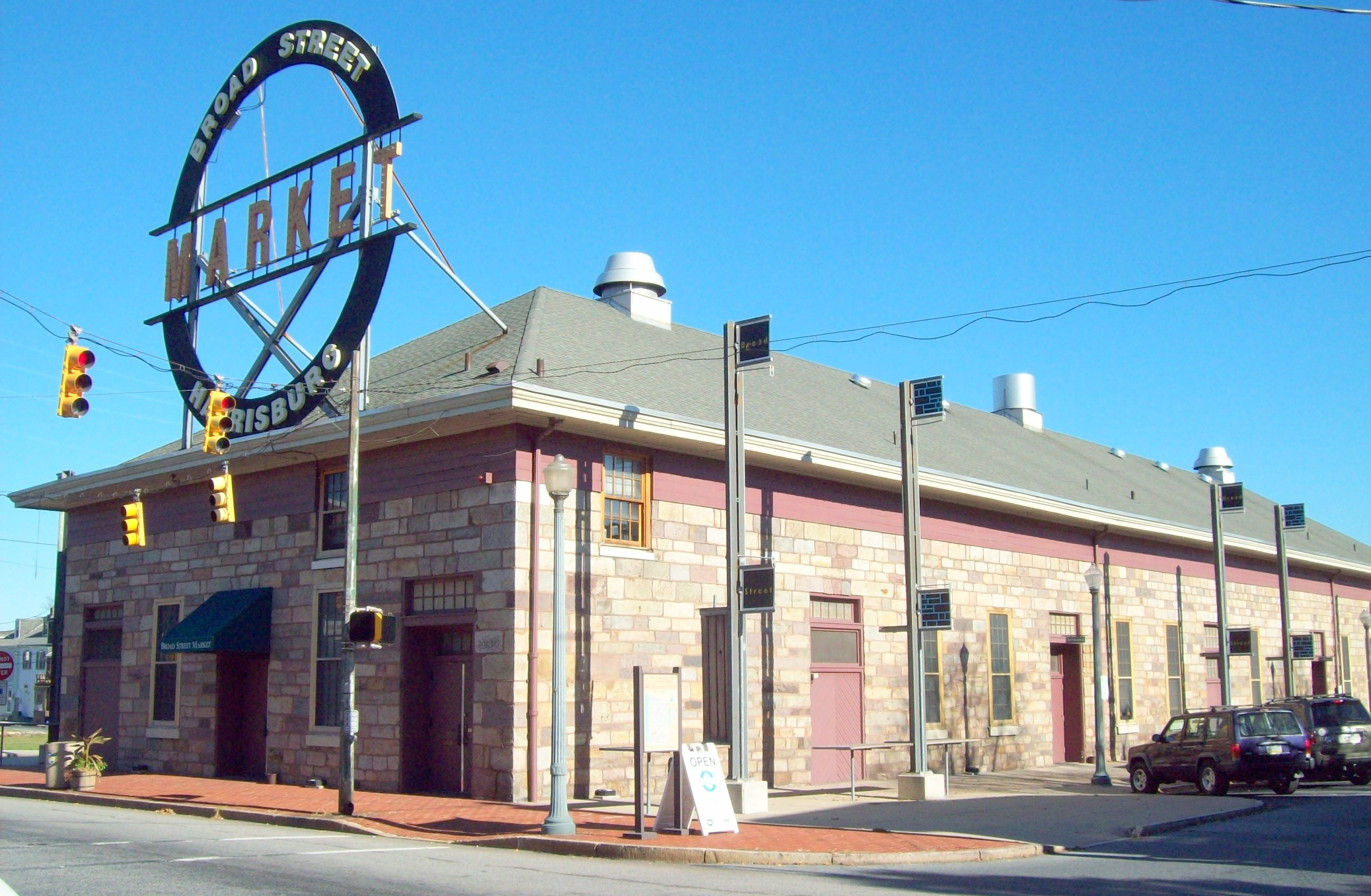 Broad Street Market-Stone Market, Harrisburg PA, November 2010